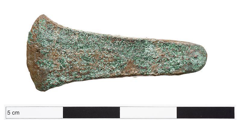 Hoard from Pile, Scania, 2000 BCE